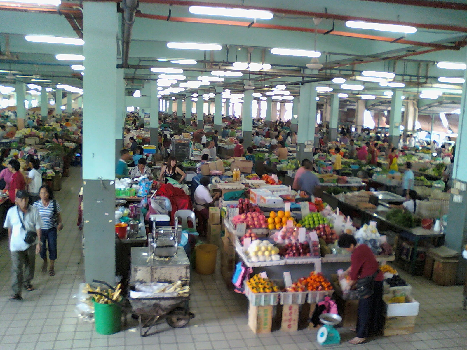 The Sibu Central Market